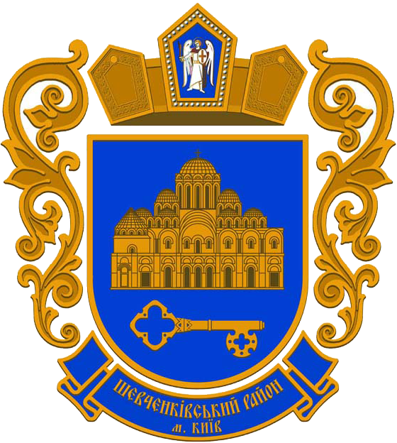 Coat of arms of Shevchenkivskyi Raion in Kiev, Ukraine.